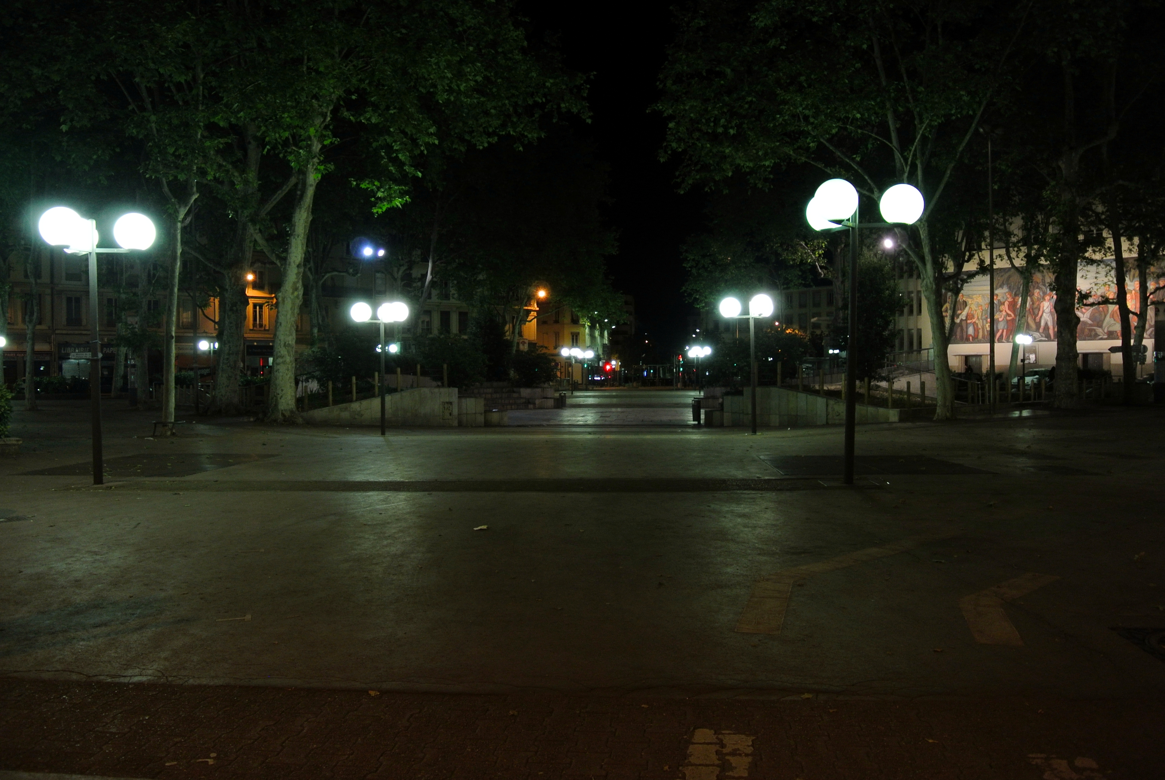 The place Guichard in Lyon, looking northeast.